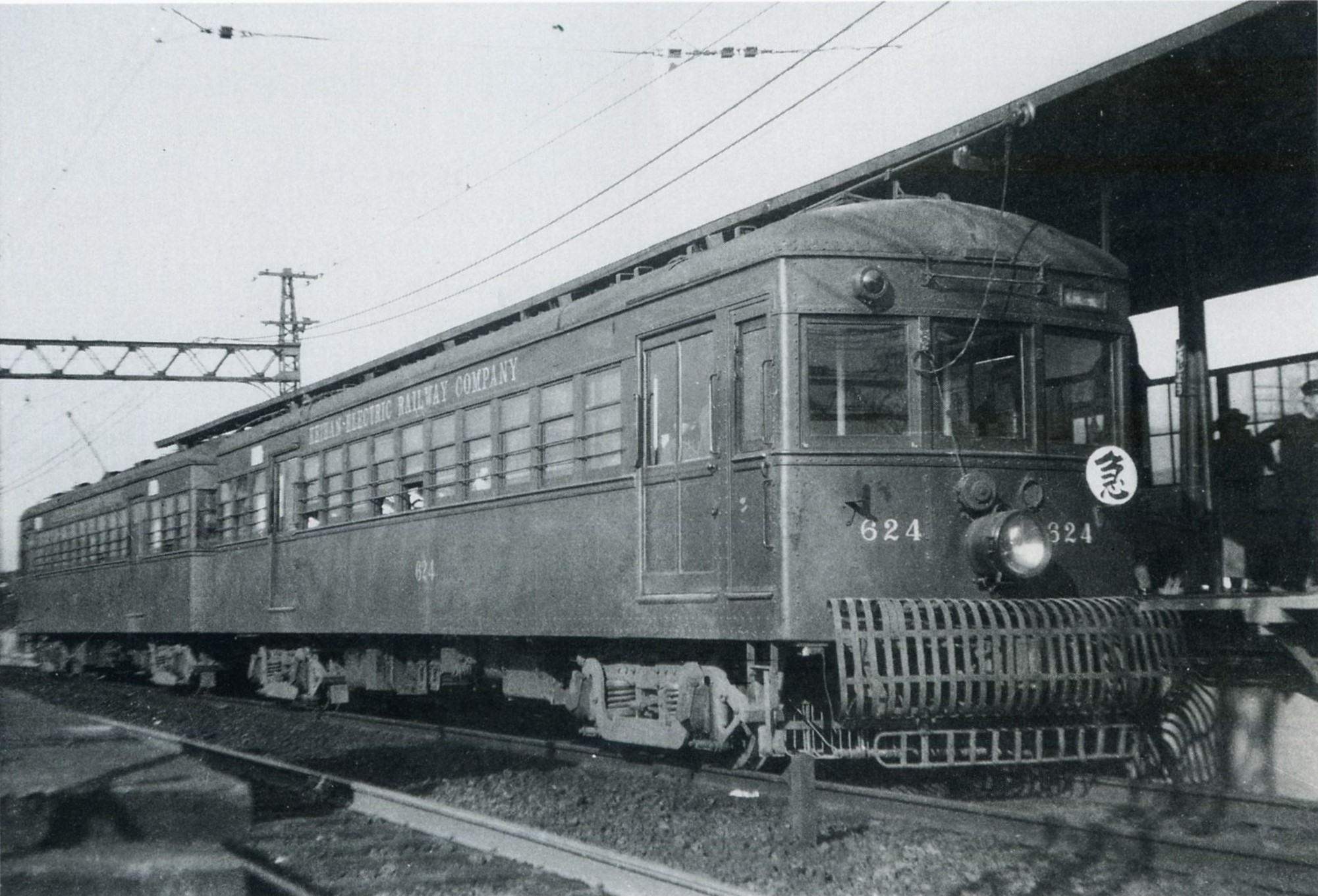 Keihan 600 series EMU at Shichijo Station